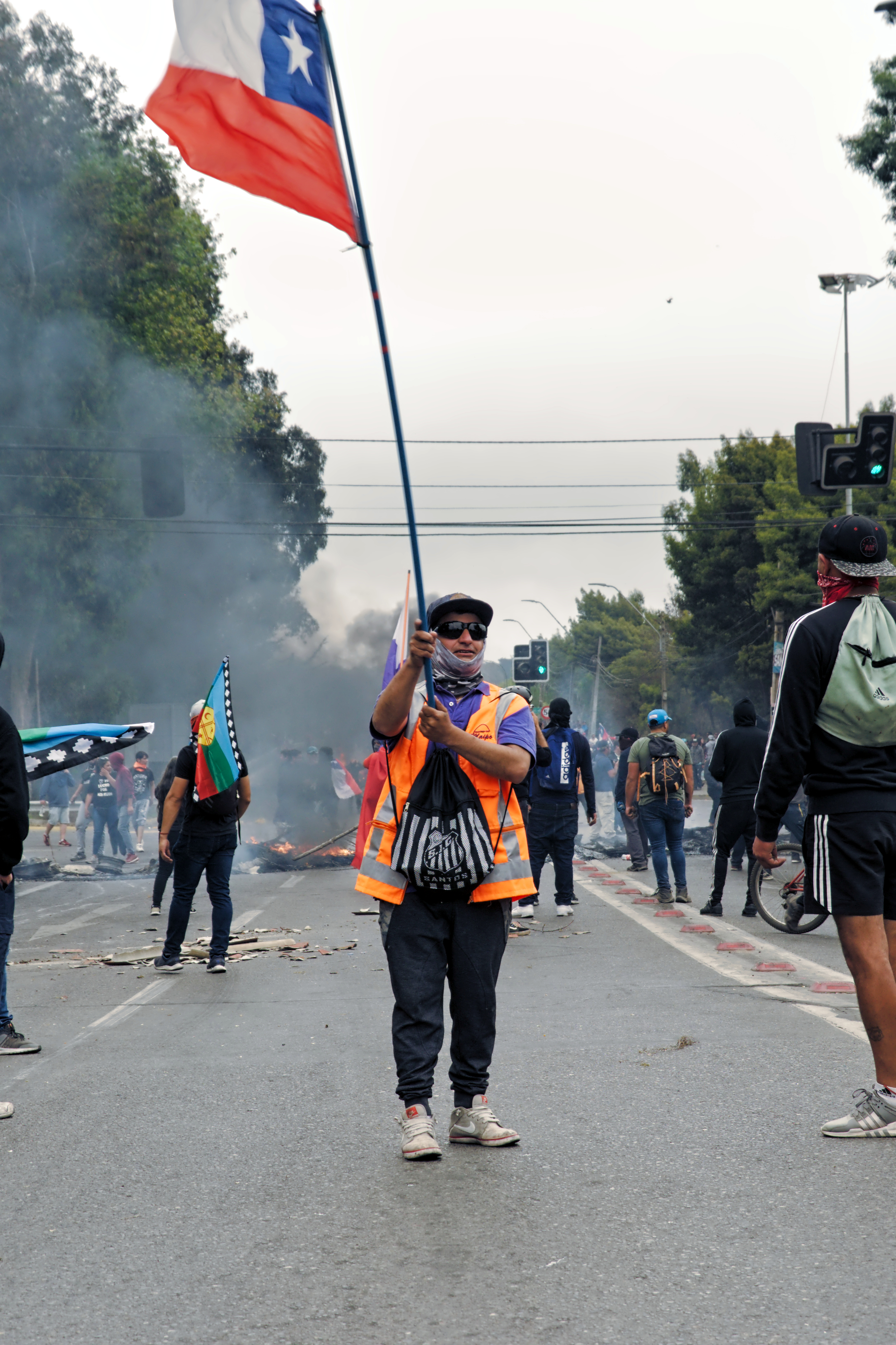 12/11/19 Marcha San Antonio, Chile